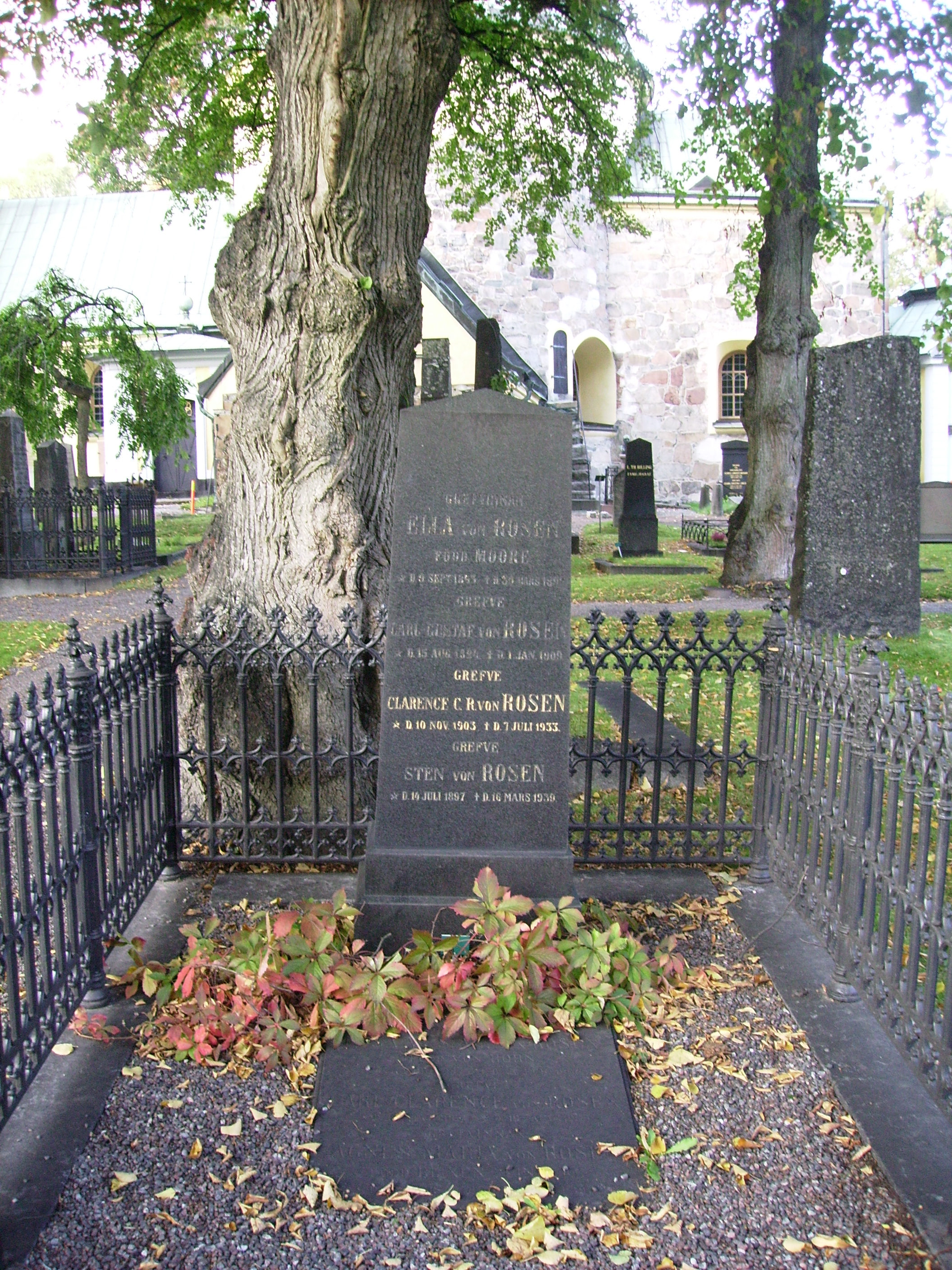 Grave of Ella von Rosen, Carl Gustaf von Rosen, Clarence von Rosen (1903-1933), Sten von Rosen, Elsa Vilhelmina Agneta Sofia von Rosen, Clarence von Rosen (1867-1955), and Agnes Maria von Rosen at Solna kyrkogård